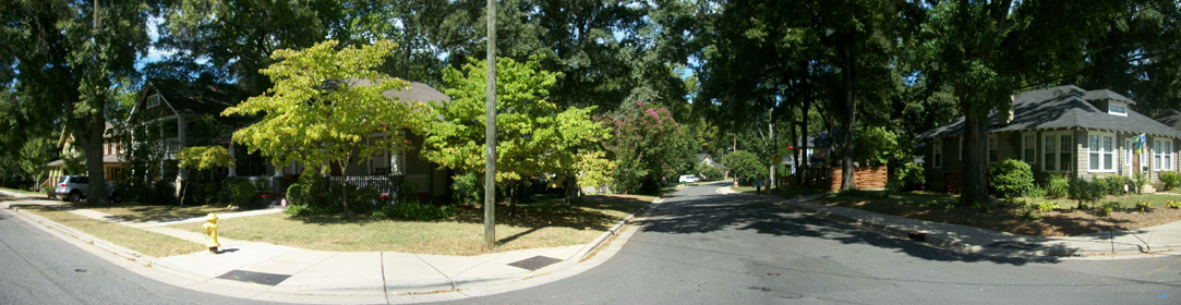 NoDa Neighborhood (North Charlotte) in the Mecklenburg Mill Village Houses